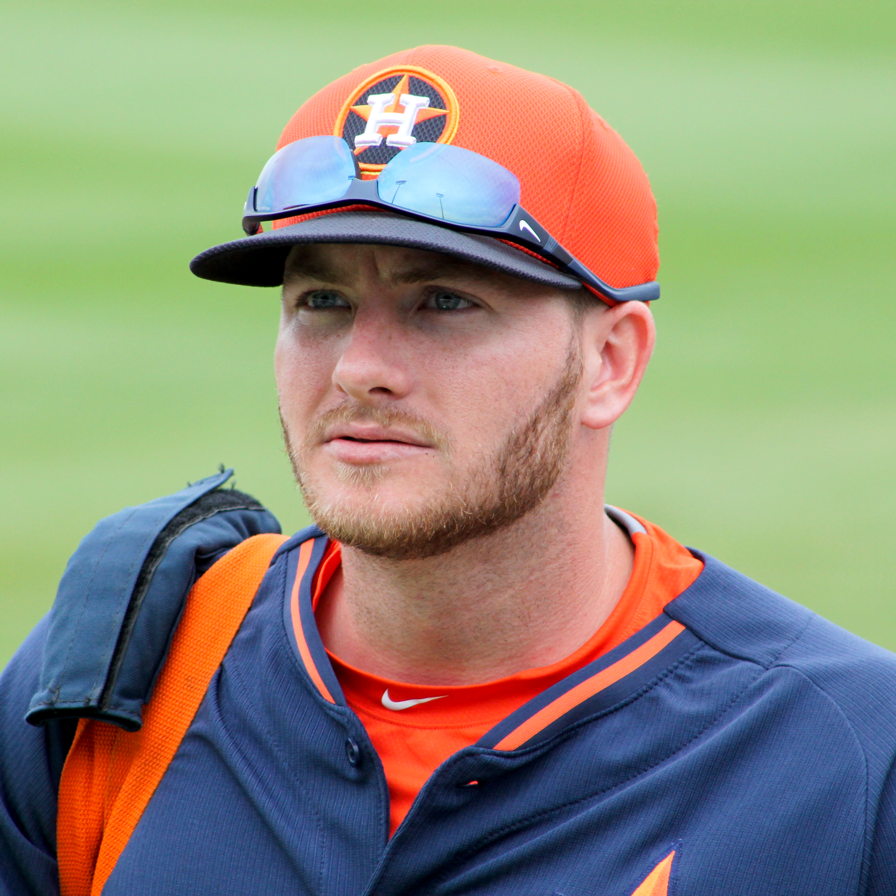 Professional baseball player Robbie Grossman at spring training in Florida in March 2015.